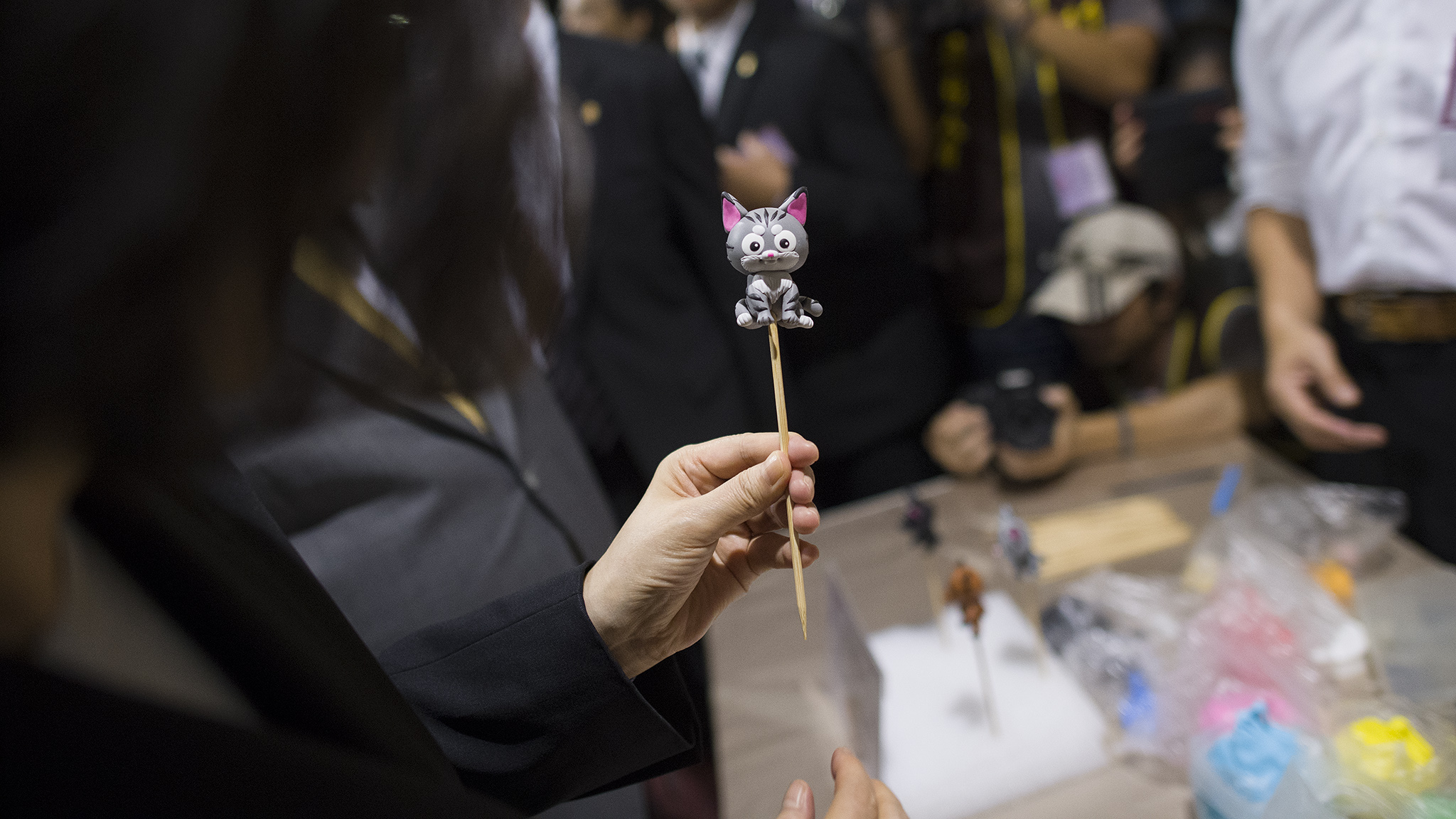 President Tsai and Prime Minister Ralph E. Gonsalves and Mrs. Gonsalves of St. Vincent and the Grenadines visit the booth that features dough figurine at the ROC 2016 National Day Reception.